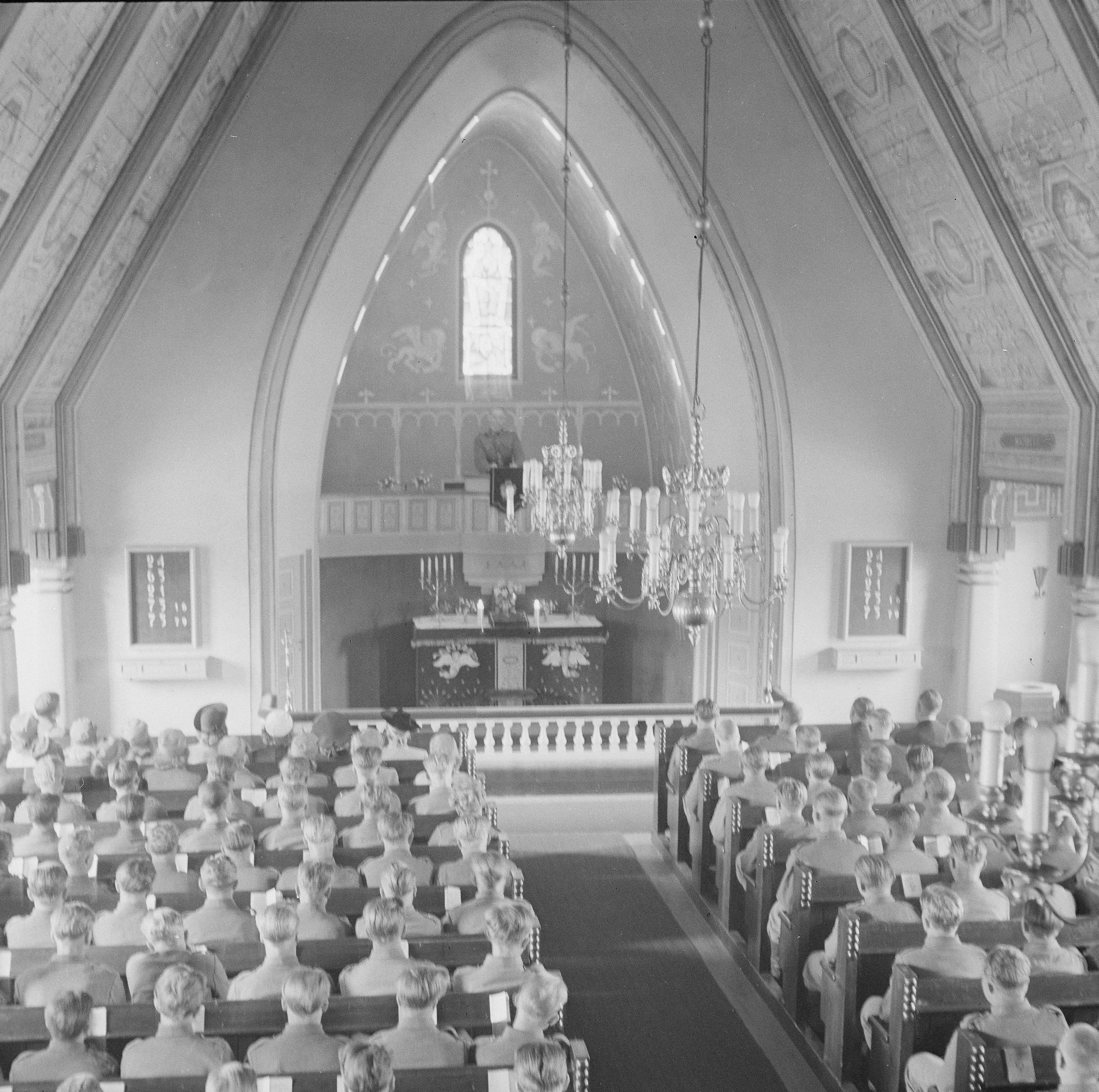 "Soldiers (JP 6) in the Church of Mariehamn, attending church service during the Commemoration Day of Fallen Soldiers. Picture by Military Official (fi: "sot. virk.") Eino Nurmi.